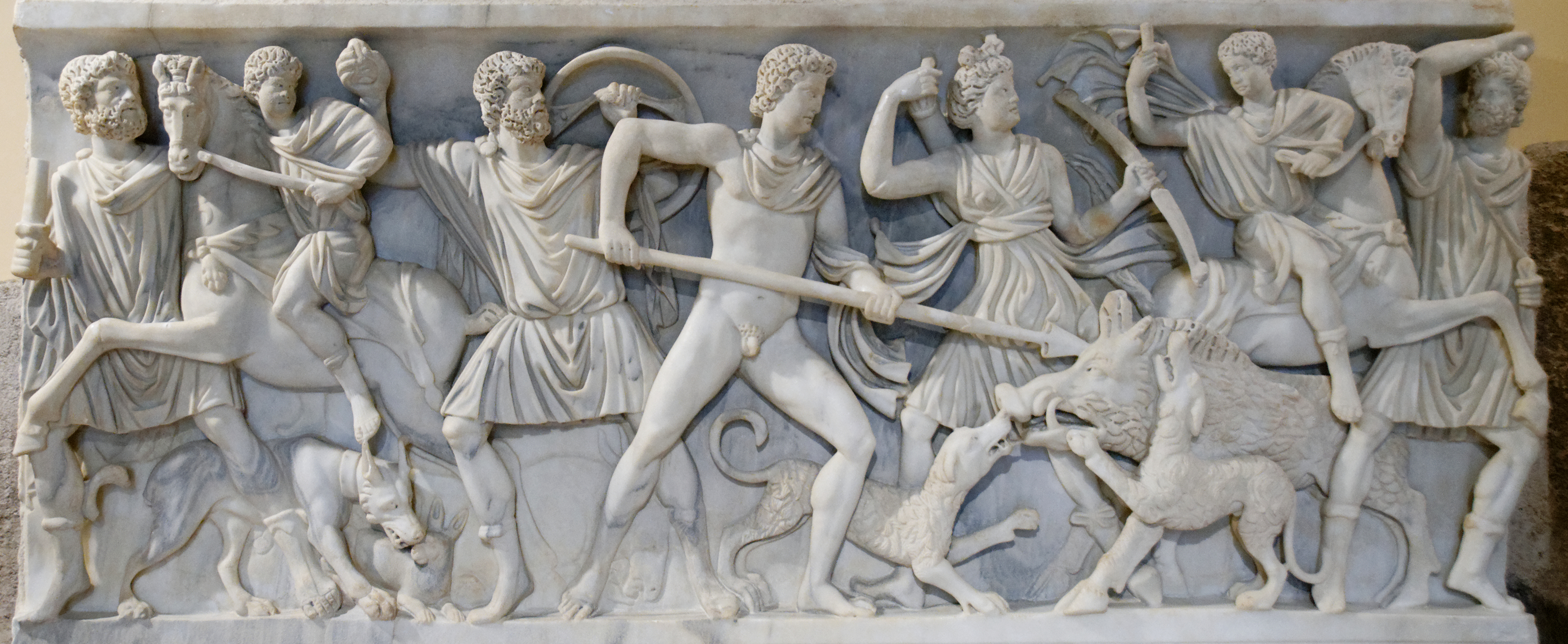 Sarcophagus with the Calydonian hunt, representing the hero Meleager and the goddess Artemis. Proconnesian marble, Roman artwork.